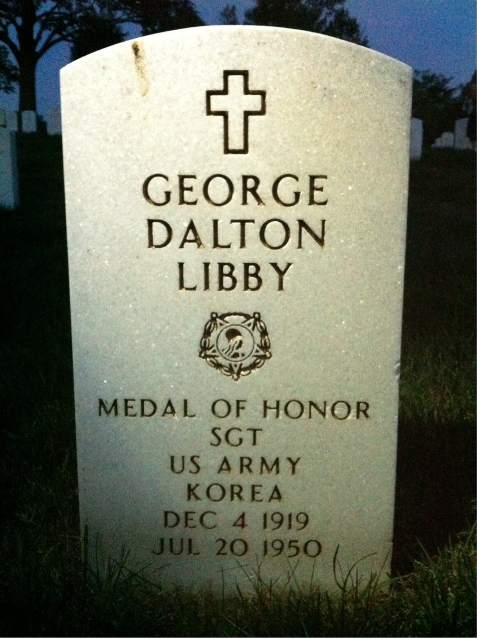 Photograph of the grave marker for George D. Libby, recipient of the Medal of Honor